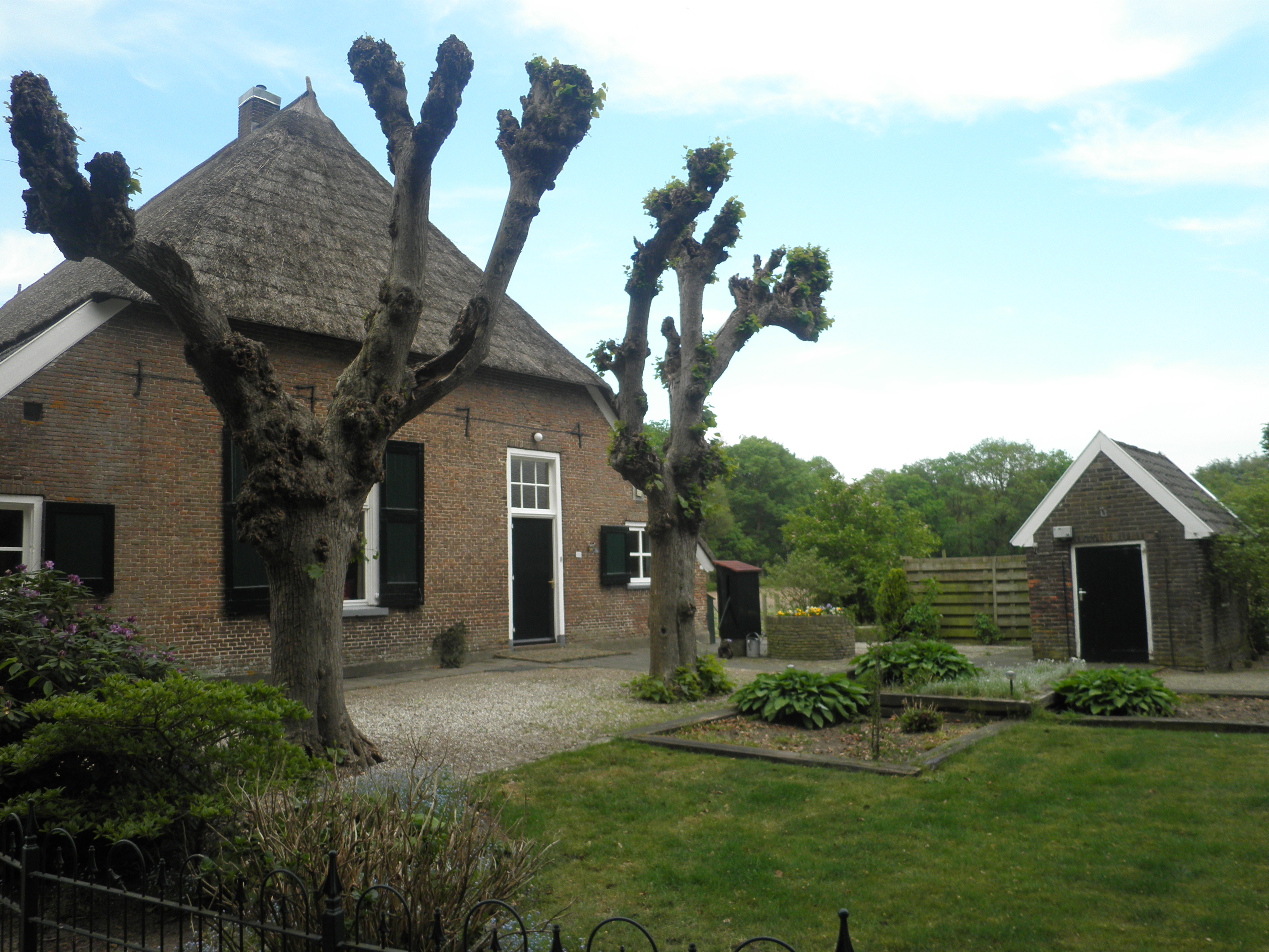 "Elmerink": small farm with partially thatched half-hipped roof. The facade dating to 1774, shown by wall anchors in digit form. Pigsty of wood and brick under a partly thatched half-hipped roof. Bakery shed under tiled half-hipped roof. Pump. Nationally listed heritage.